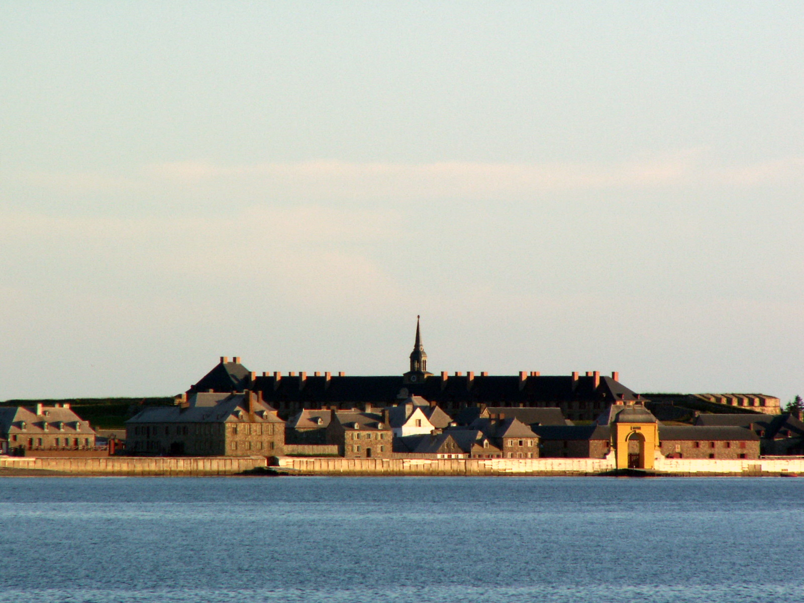 Louisbourg